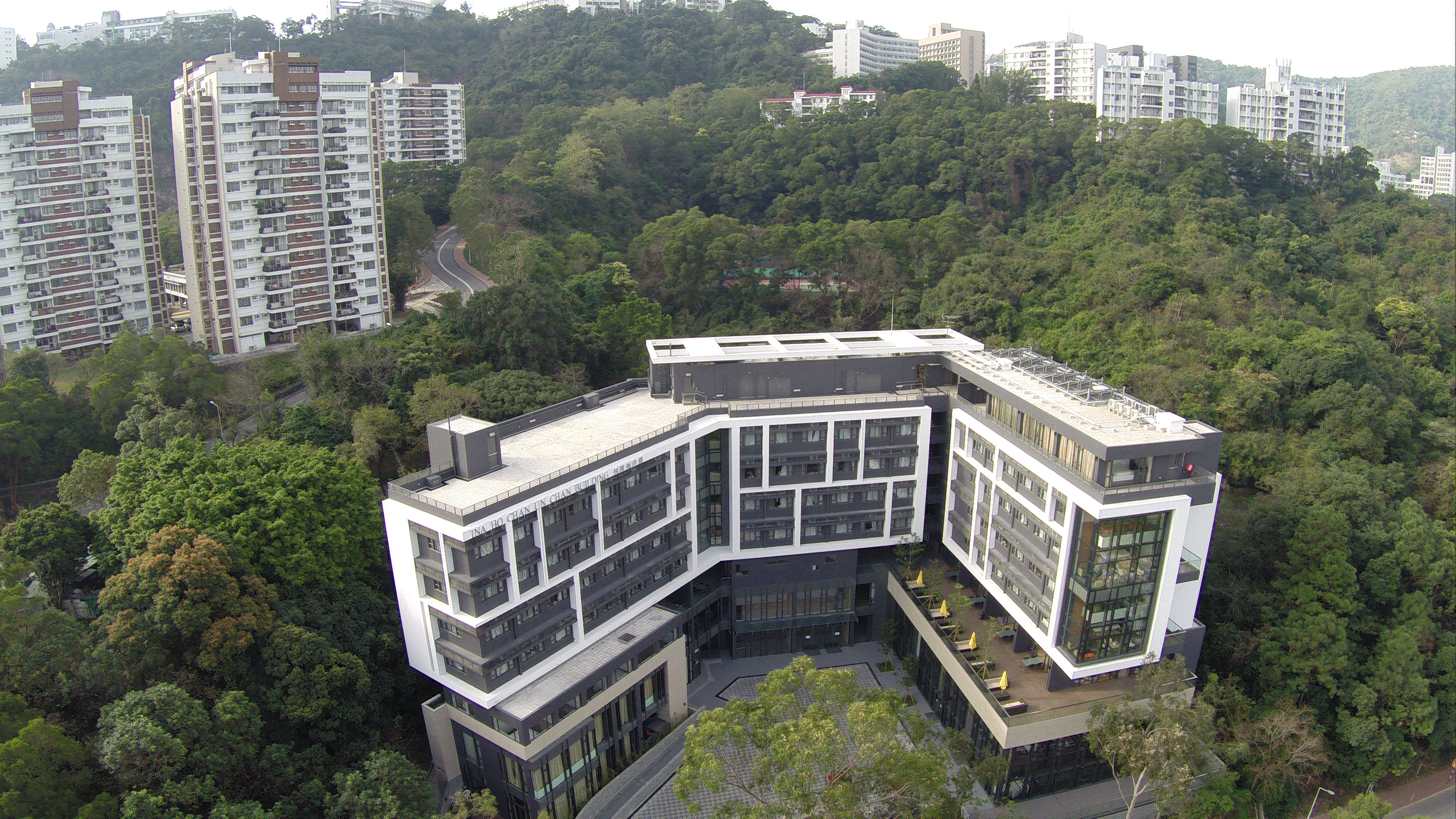 CW Chu College